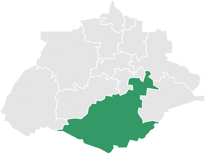 Map of the Municipalty of Aguascalientes in the State of Aguascalientes, México.